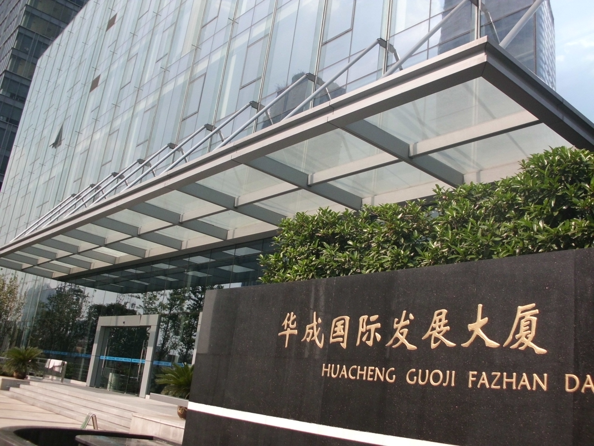 Huacheng mansion